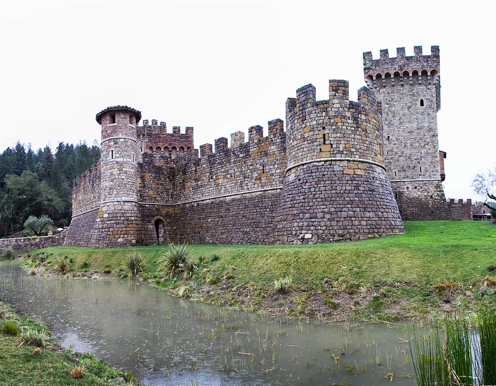 A view of Castello-di-Amorosa on a rainy day.